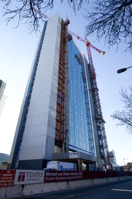 The Mitchell and Hilarie Morgan Hall (corner of North Broad Street and Cecil B. Moore Avenue in Philadelphia) under construction in 2013.